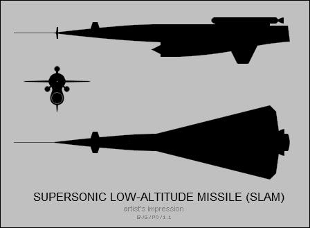 Supersonic Low-Altitude Missile/"Project Pluto" nuclear-ramjet missile proposal